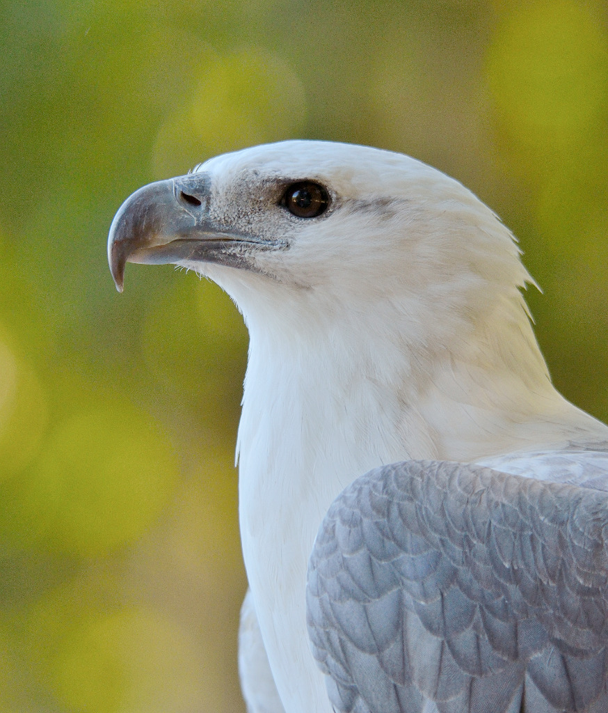 White-bellied Sea Eagle (Haliaeetus leucogaster) at the Lone Pine Koala Sanctuary, Brisbane, Queensland, Australia